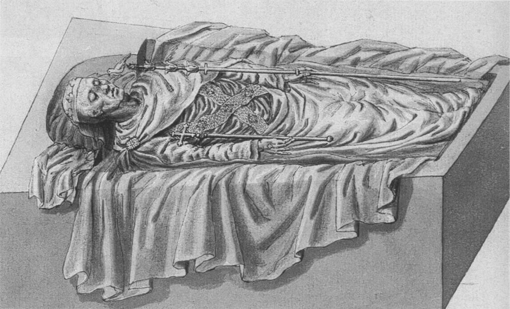 Illustration from the 1774 exploration of Edward I of England's tomb.